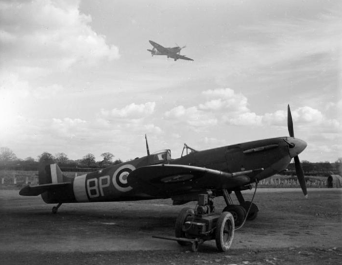 A Supermarine Spitfire Mark VB, of No. 457 Squadron RAAF returning to RAF Redhill, Surrey (UK), after a sweep over northen France, whilst another Squadron aircraft stands at its dispersal point, plugged into a trolley accumulator at readiness.